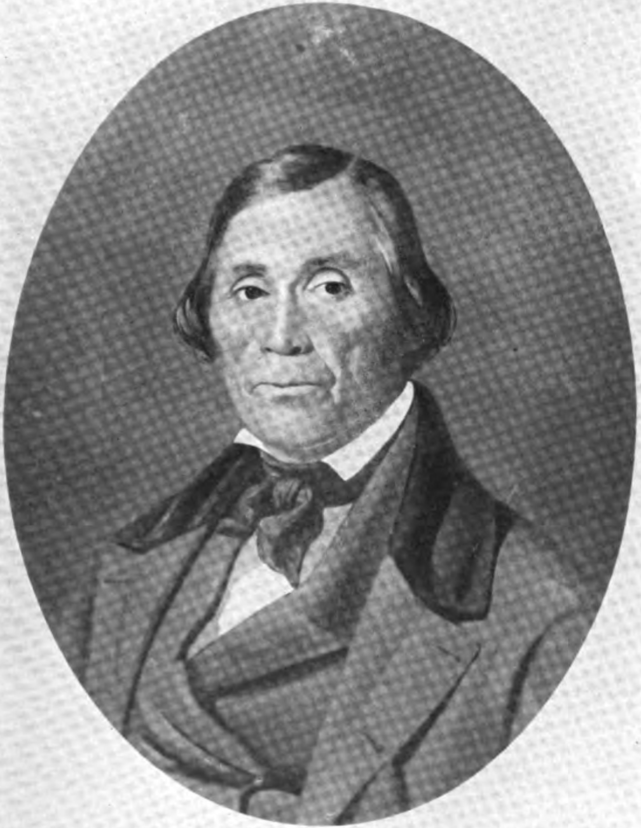 Daniel Bread, Oneida Chief